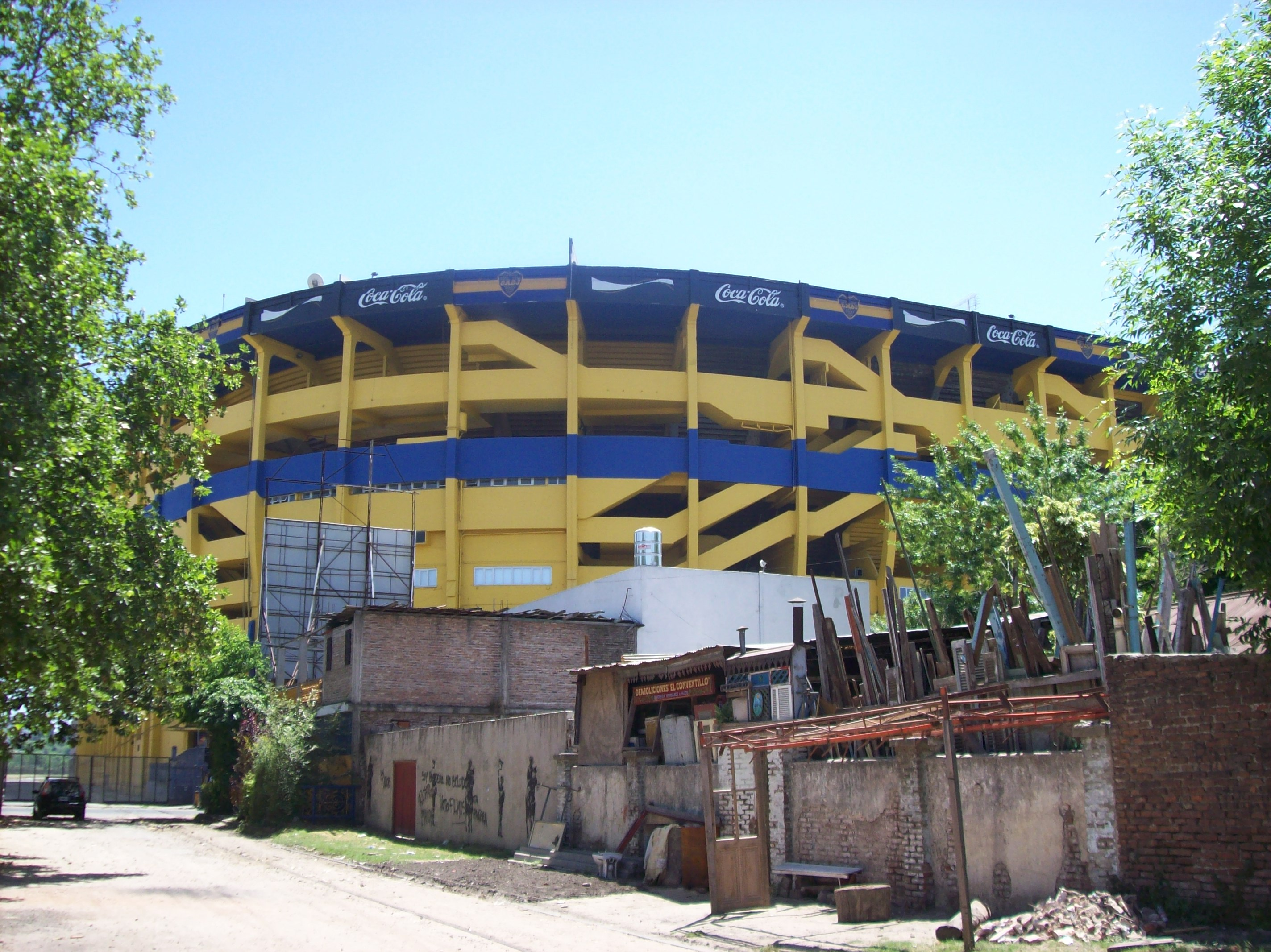 Estadio Boca Juniors desde las vías de carga del Ferrocarril General Roca, en el barrio de La Boca, Buenos Aires, Argentina.